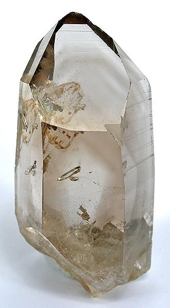 Quartz (Var.: Smoky Quartz) Locality: Hot Springs, Garland County, Arkansas, USA (Locality at ) Size: 6.3 x 3.1 x 2.4 cm. A water-clear, very glassy, Dauphine-twinned smoky quartz crystal from near Hot Springs, Arkansas. Arkansas smoky quartz is not that common and this is a really good. Dauphine-twins are penetration twins with the c-axis as the twin axis. This is a left-handed Dauphine-twin according to the old accompanying card. Beautifully complete all-around, with only trivial termination edge-wear and an undamaged contact on one side. The card probably dates the specimen to the 1950s or 60s. Ex. J. Cilen and Richard Hauck Collections.